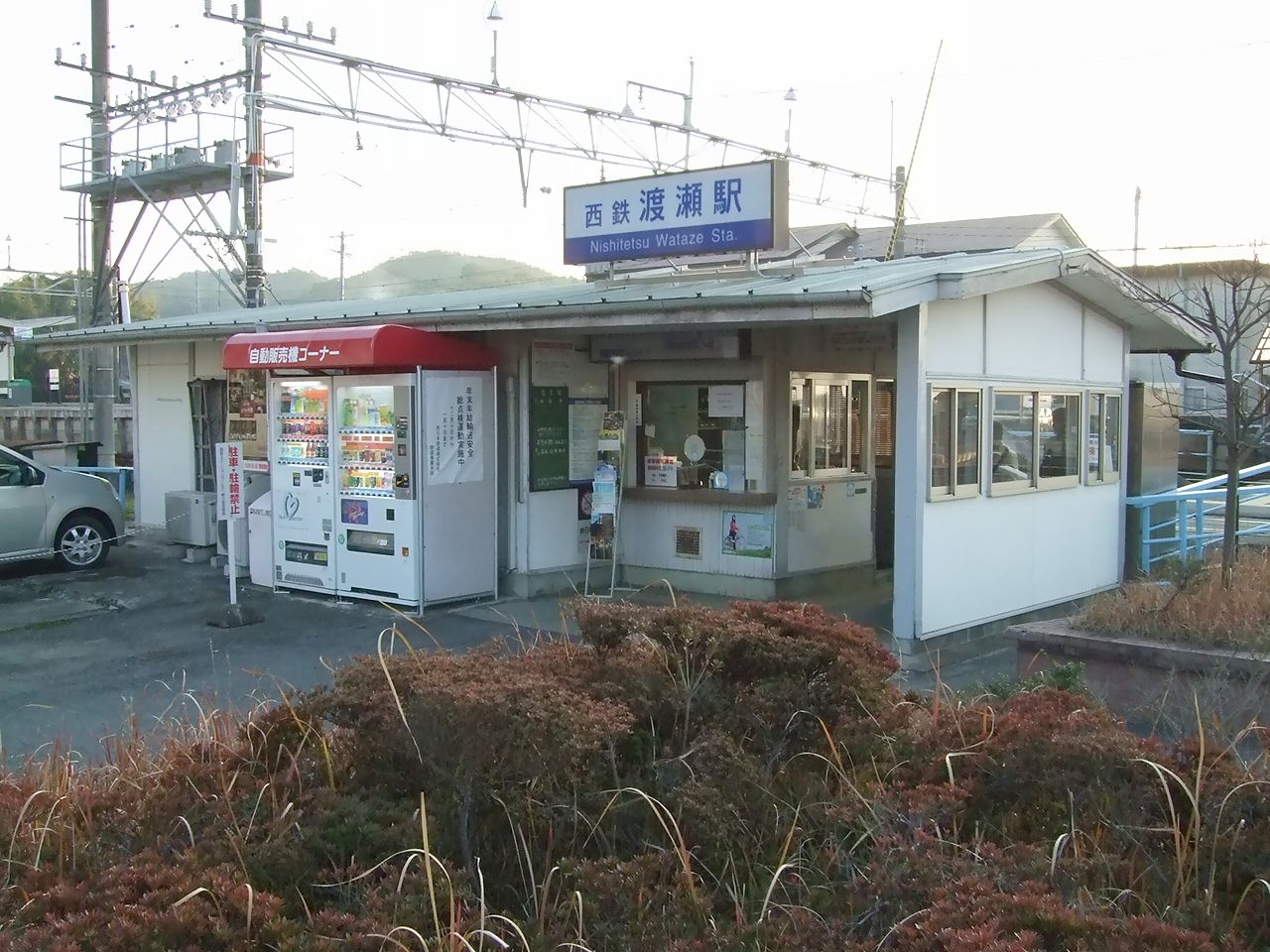 Nishitetsu Wataze Station, Nishitetsu Tenjin Omuta Line.